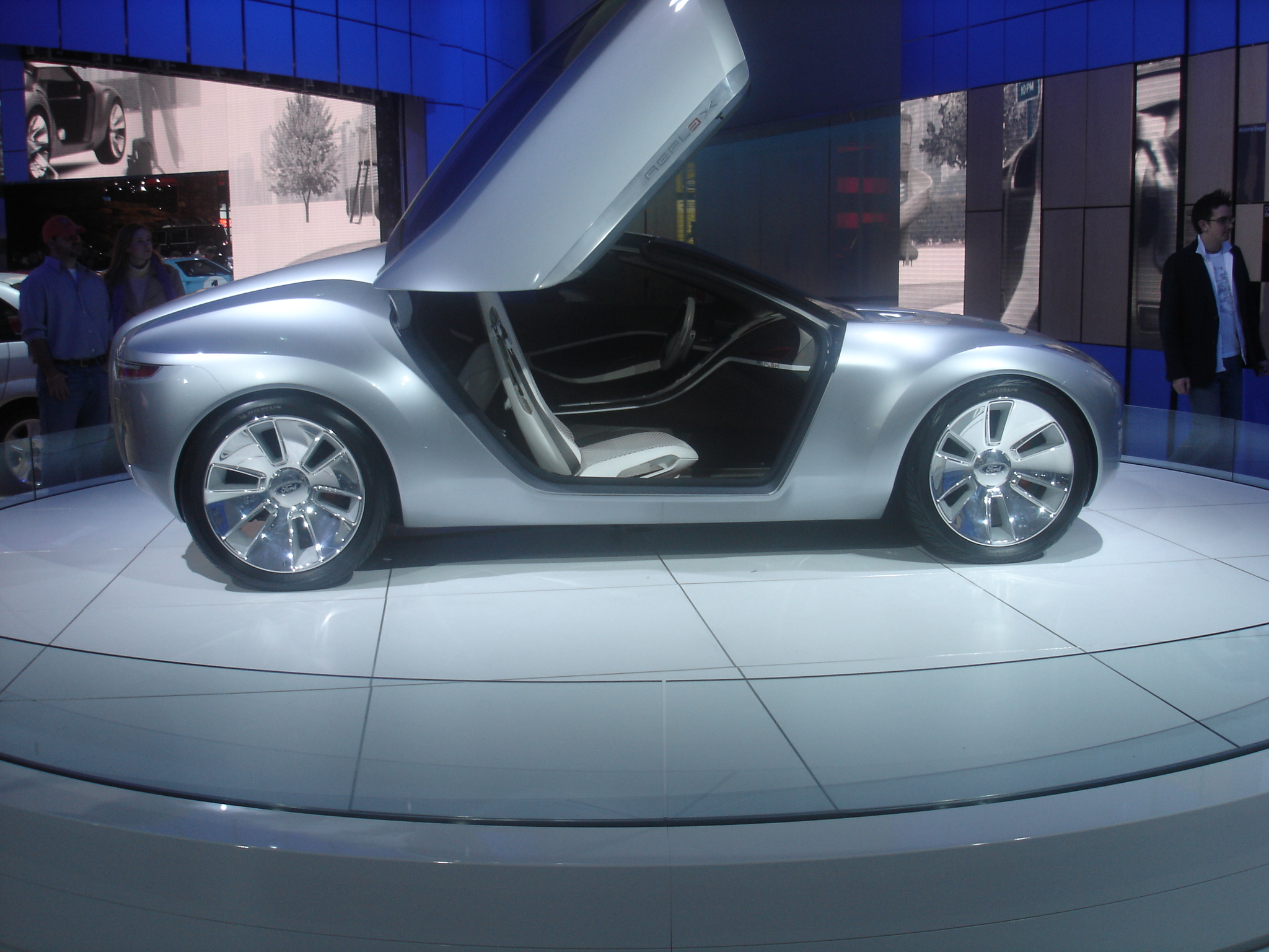 Image I took of the Ford Reflex at the North American International Auto Show